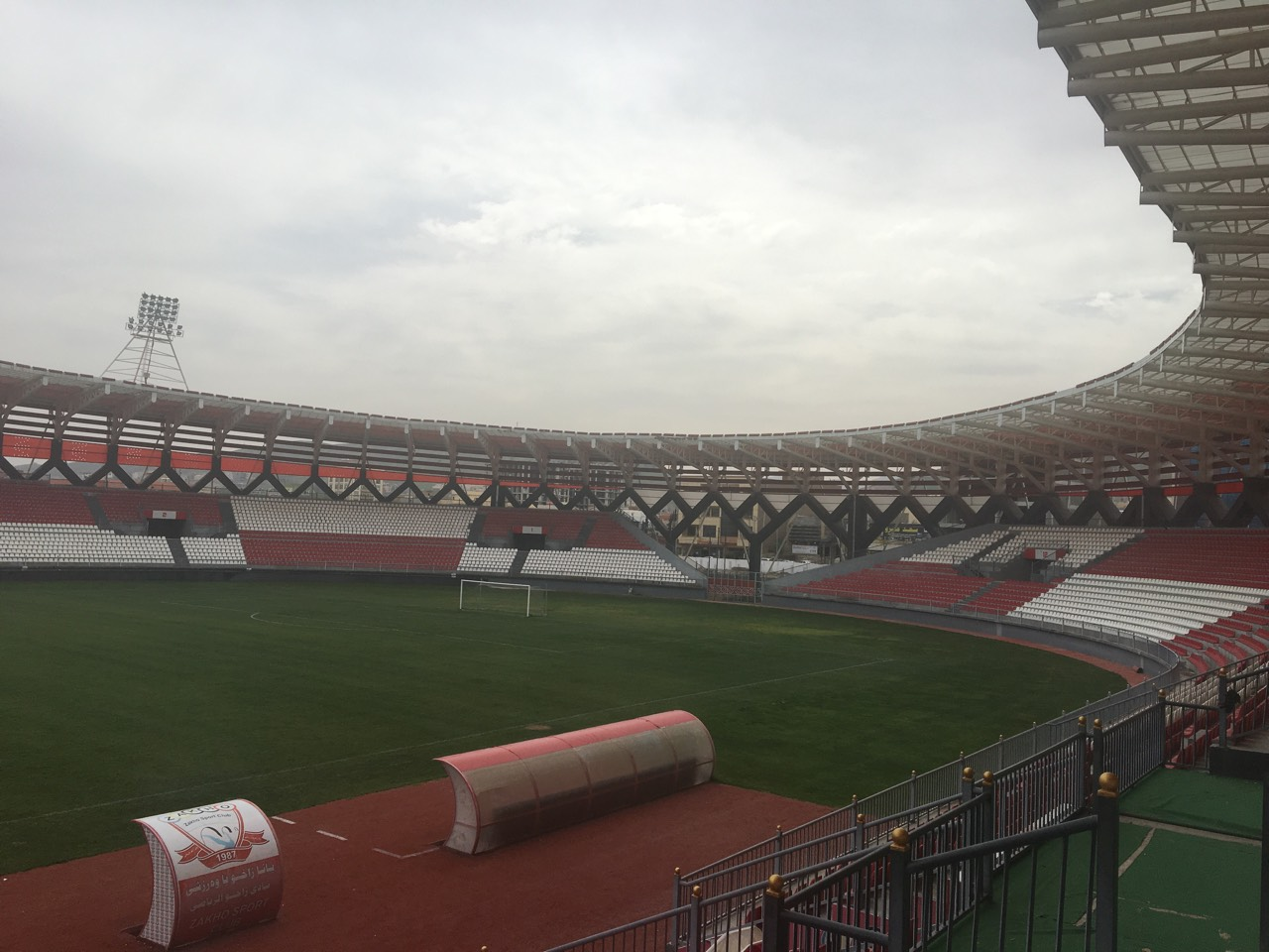 Zakho Olympic Stadium